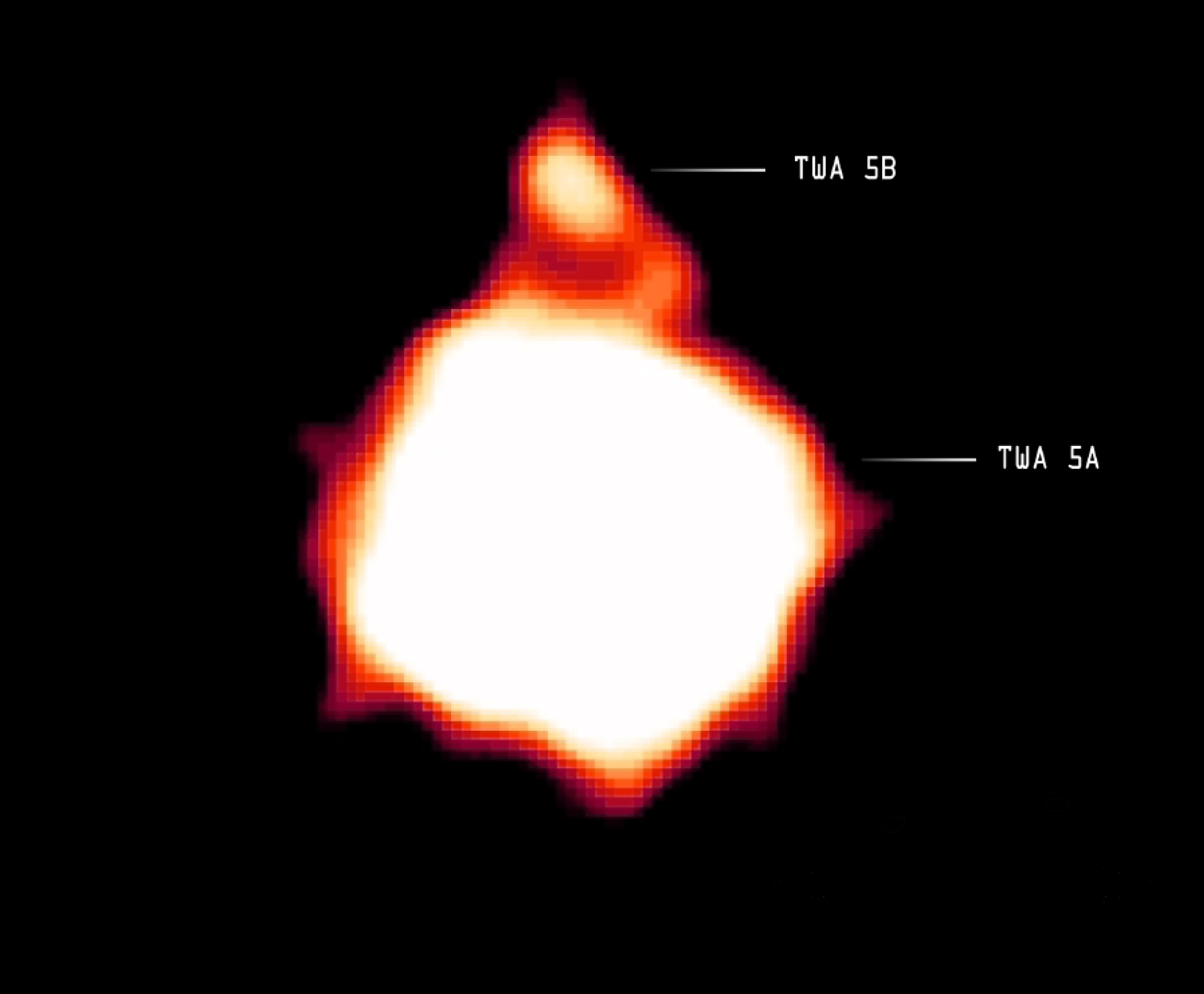 An image from NASA's Chandra X-ray observatory revealed X-rays produced by TWA 5B, a brown dwarf orbiting a young binary star system known as TWA 5A. The star system is 180 light years from the Earth and a member of a group of about a dozen young stars in the constellation Hydra. The brown dwarf orbits the binary star system at a distance about 2.75 times that of Pluto's orbit around the Sun. The sizes of the sources in the image are due to an instrumental effect that causes the spreading of pointlike sources. Brown dwarfs are often referred to as "failed stars" because they are under the mass limit (about 80 Jupiter masses, or 8 percent of the mass of the Sun) needed to spark the nuclear fusion of hydrogen to helium which supplies the energy for stars such as the Sun. Lacking any central energy source, brown dwarfs are intrinsically faint and draw their energy from a very gradual shrinkage or collapse. Young brown dwarfs, like young stars, have turbulent interiors. When combined with rapid rotation, this turbulent motion can lead to a tangled magnetic field that can heat their upper atmospheres, or coronas, to a few million degrees Celsius. The X-rays from both TWA 5A and TWA 5B are from their hot coronas. TWA 5B is estimated to be only between 15 and 40 times the mass of Jupiter, making it one of the least massive brown dwarfs known. Its mass is rather near the boundary, about 12 Jupiter masses, between planets and brown dwarfs, so these results could have implications for the possible X-ray detection of very massive planets around stars.